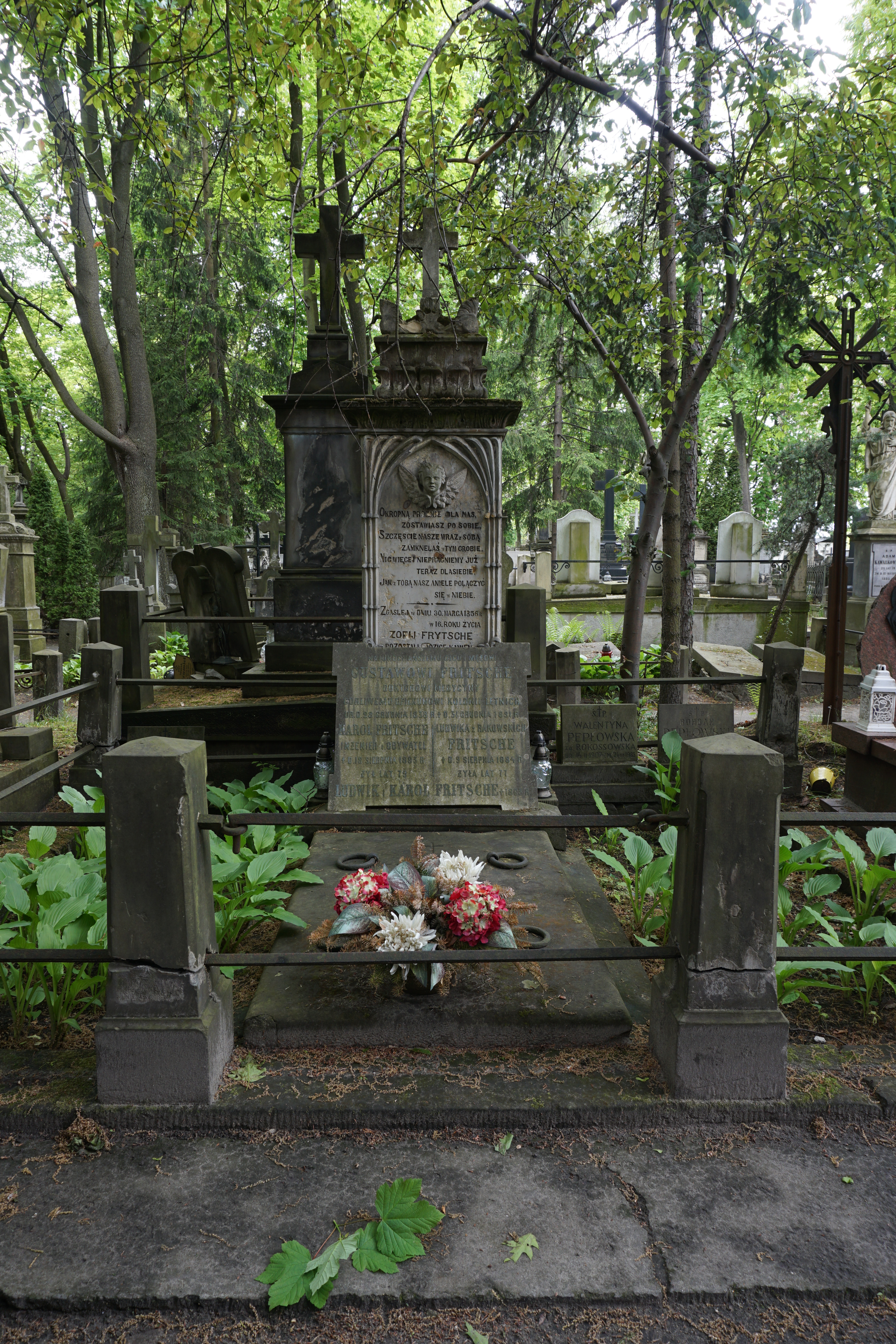 The grave of Ludwik Fritsche at the Powązki Cemetery (section 11, row 3, grave 14, 15, 16)